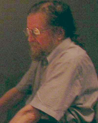 Heikki Westerinen, Dortmunder Schachtage 2007, Photographer Gerhard Hund.